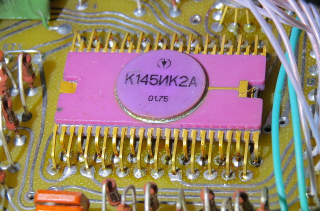 Soviet IC for calculator K145IK2A